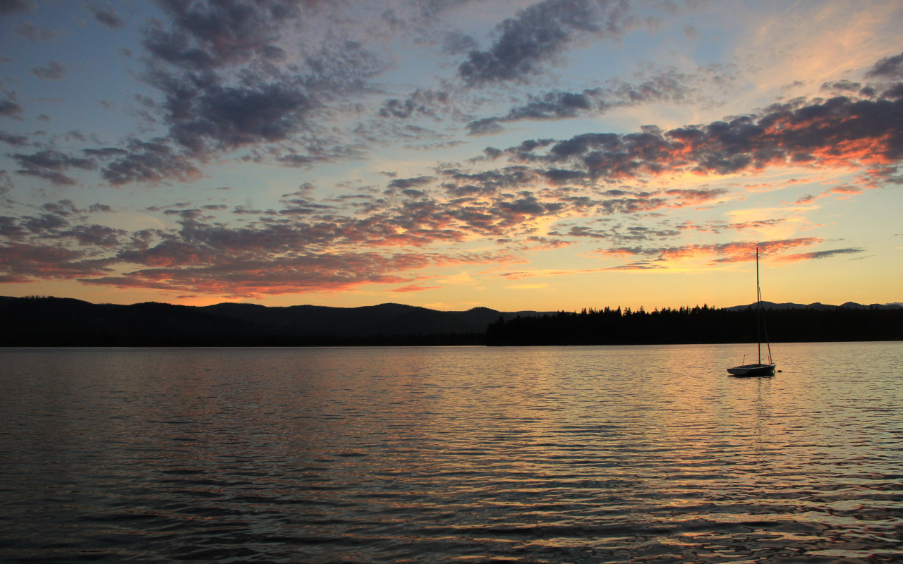 Sunset, Placid Lake, Montana, 28 July 2014